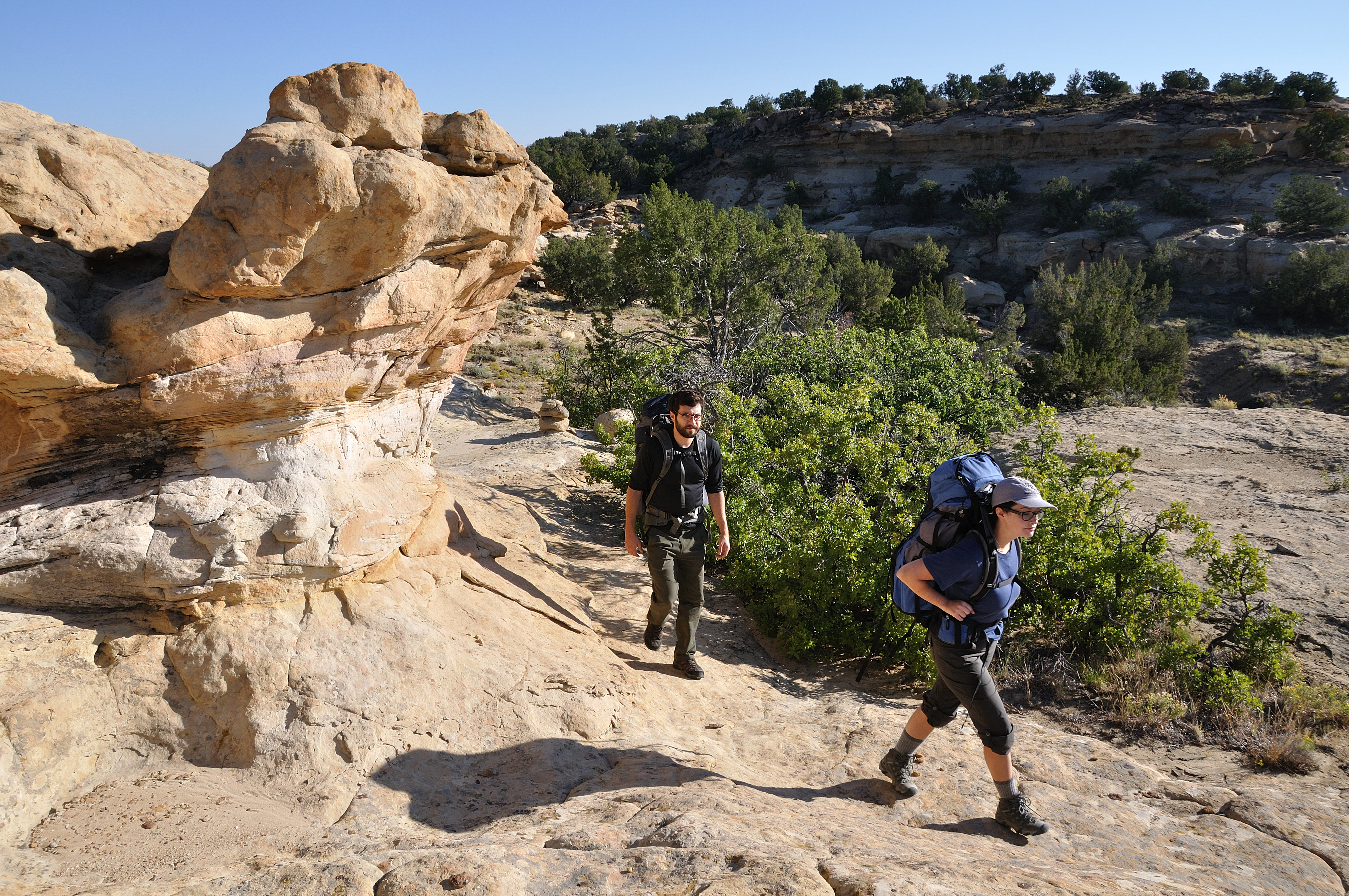 Hikers on the Continental Divide National Scenic Trail, La Leña Wilderness Study Area, northwest NM